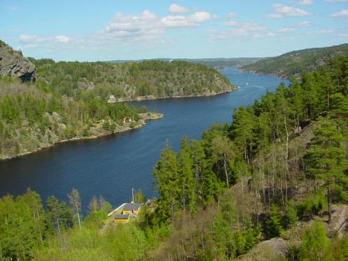 The Svinesund from the old Svinesund Bridge.